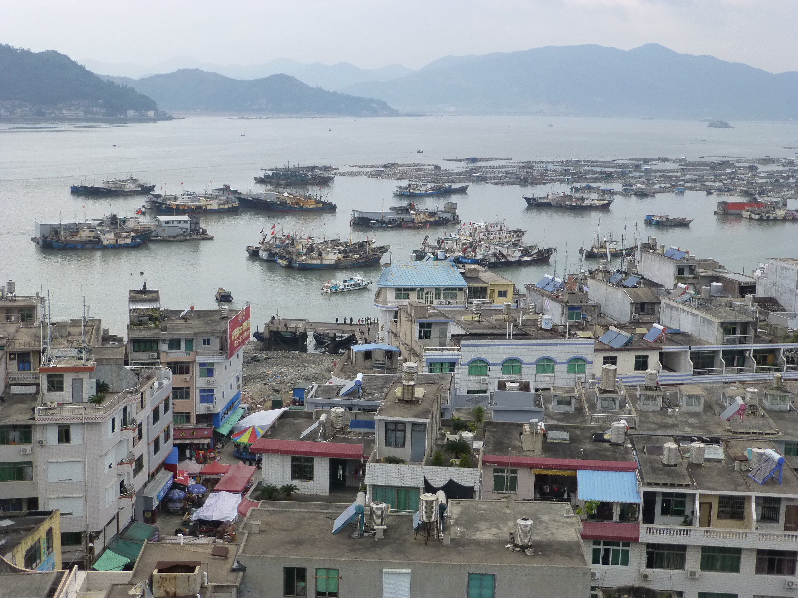 Downtown Shacheng and Shacheng harbor seen from a viewpoint on the hill above the town